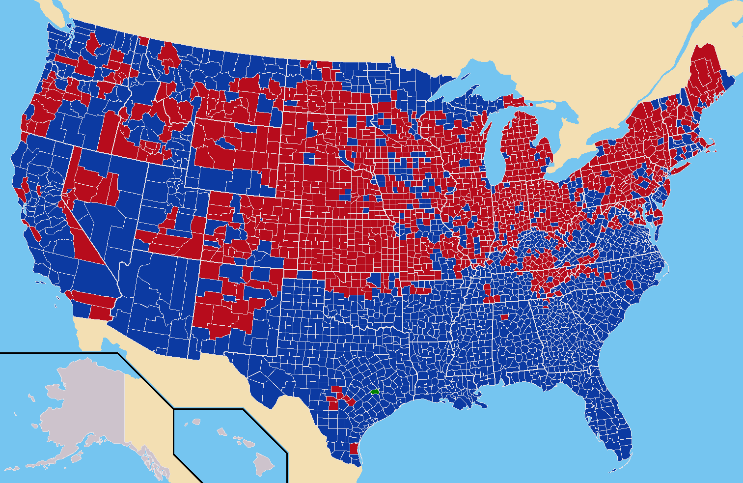 A map of the counties won by each candidate in the United States presidential election.